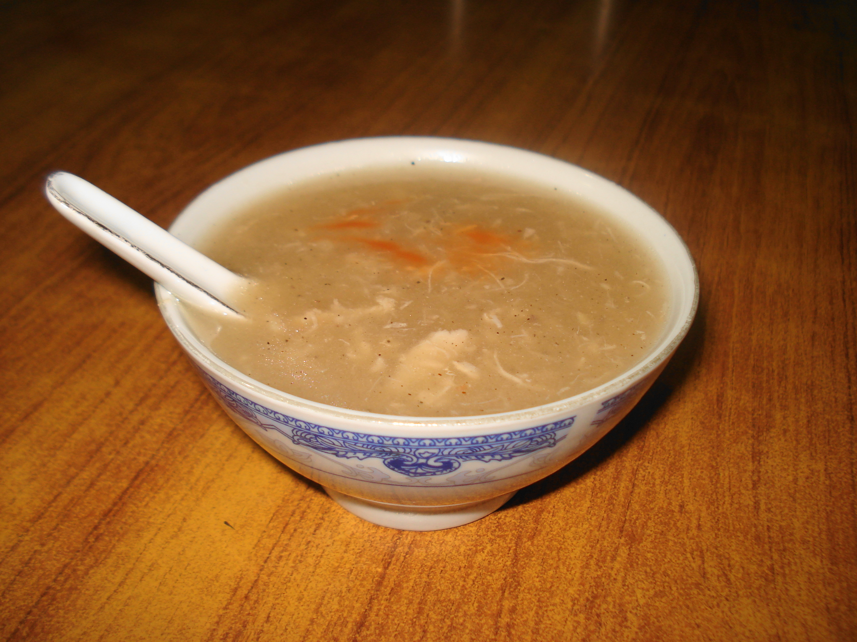 Chicken Soup